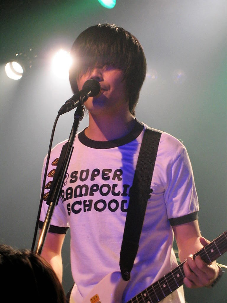 Sawao Yamanaka performing with the pillows at Shibuya Club Quattro in Tokyo, Japan on December 31, 2003.